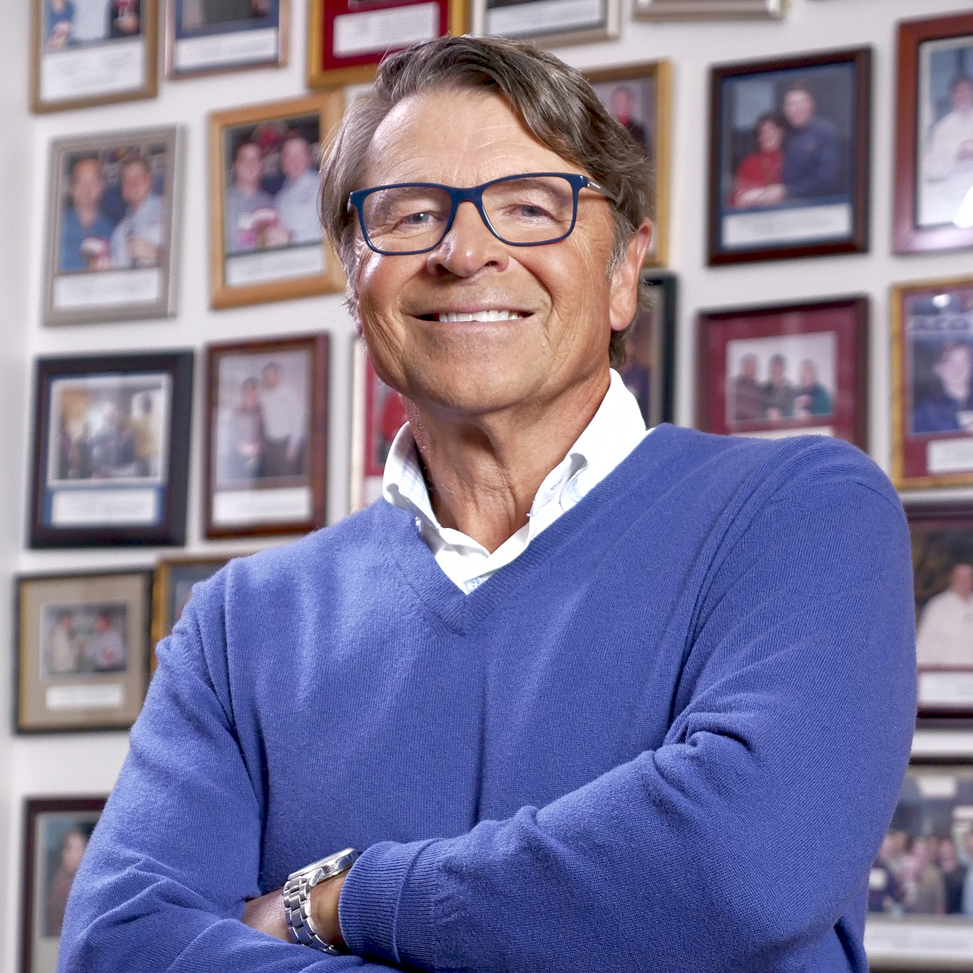 David Novak in his office at YUM! Brands.